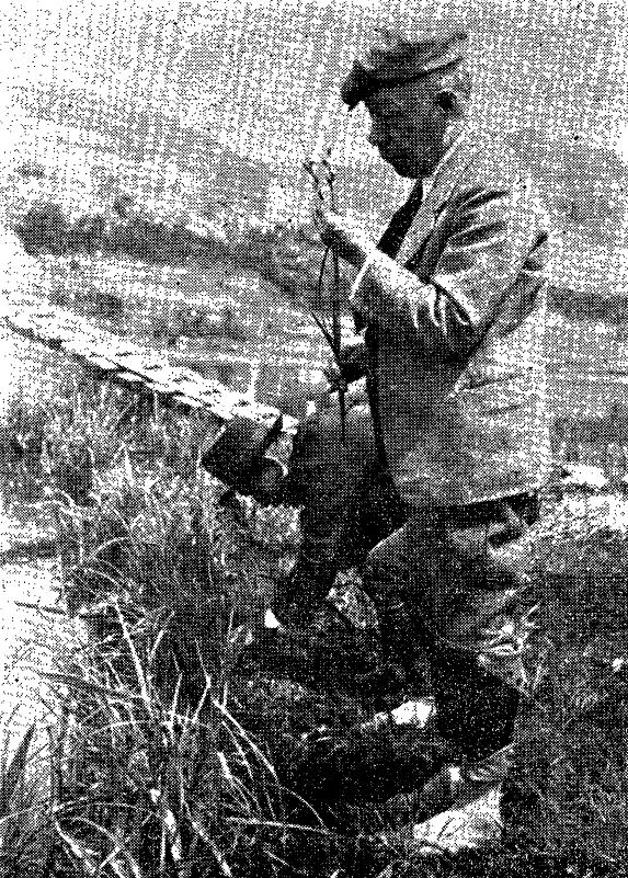 Genichi Koizumi(Gen'ichi Koidzumi, Standing), and Kei Takeuchi(back). Koidzumi looks at a plant of Carex.